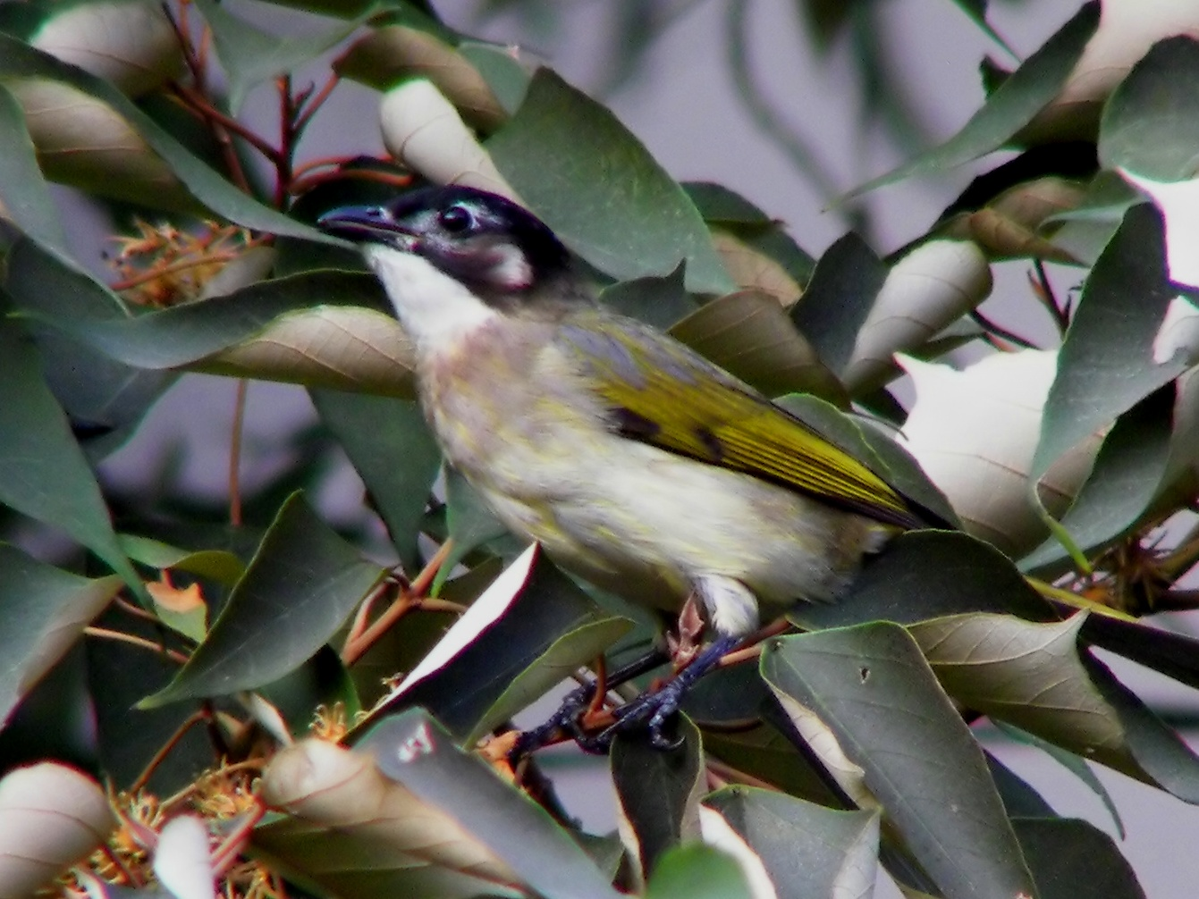 Light-vented Bulbul (Pycnonotus sinensis), Sha Tin, New Territories, Hong Kong